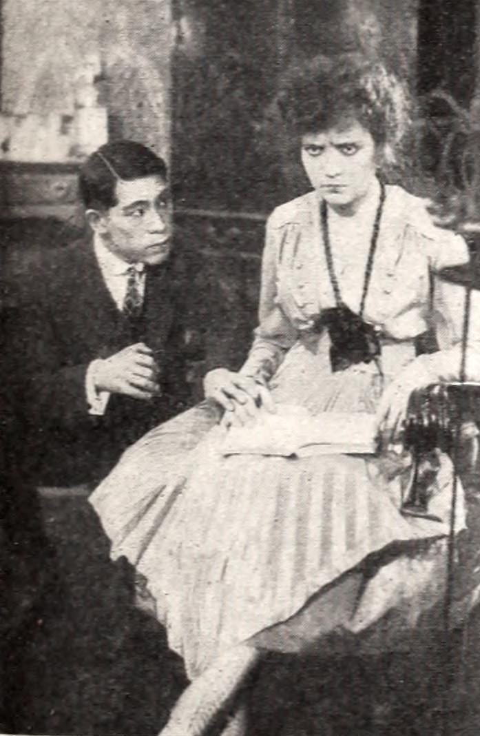 Still from the American drama film Who's Your Servant? (1920) with Yukio Aoyama and Lois Wilson, on page 51 of the January 24, 1920 Exhibitors Herald.